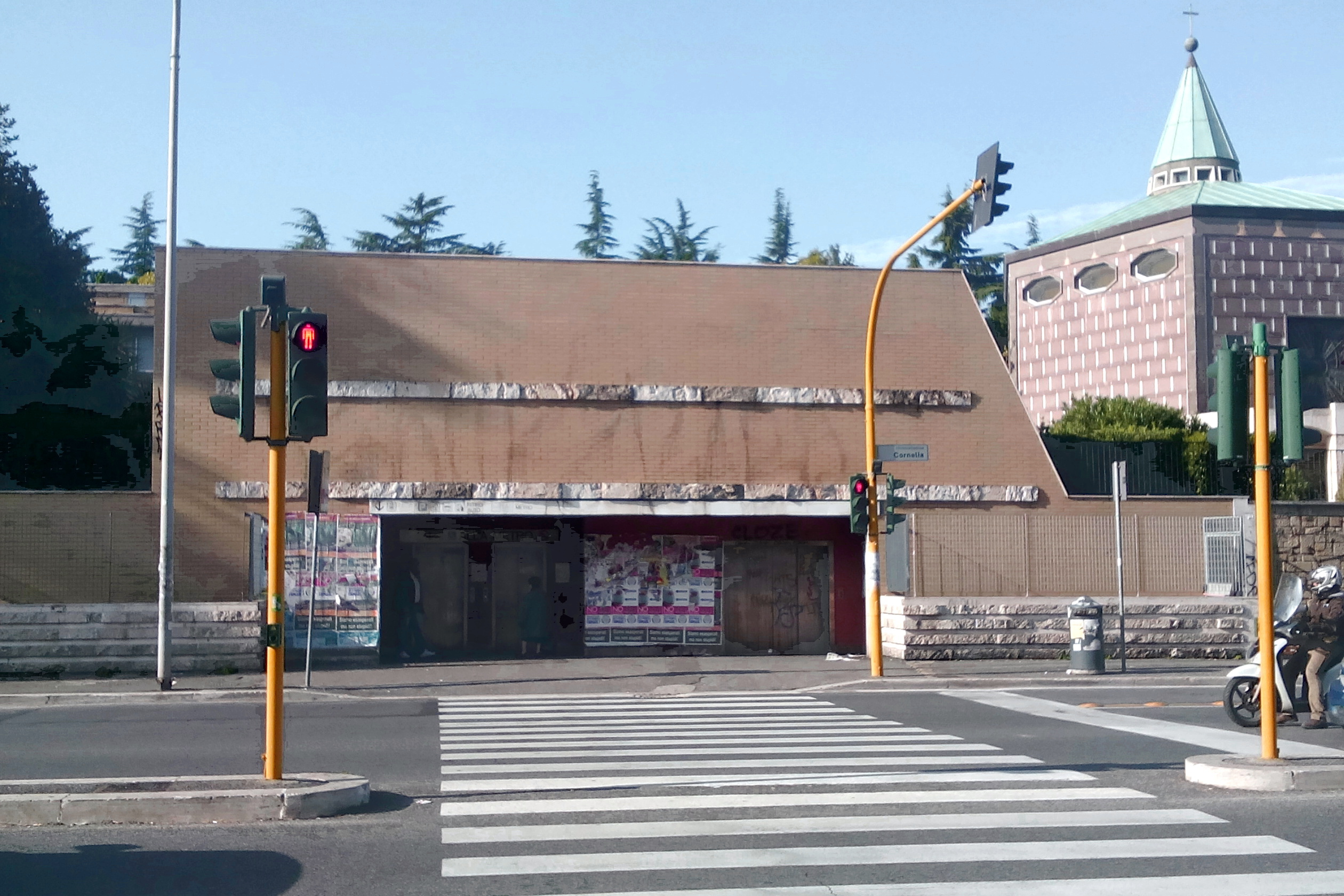 Main entrance of Rome Metro A station Cornelia